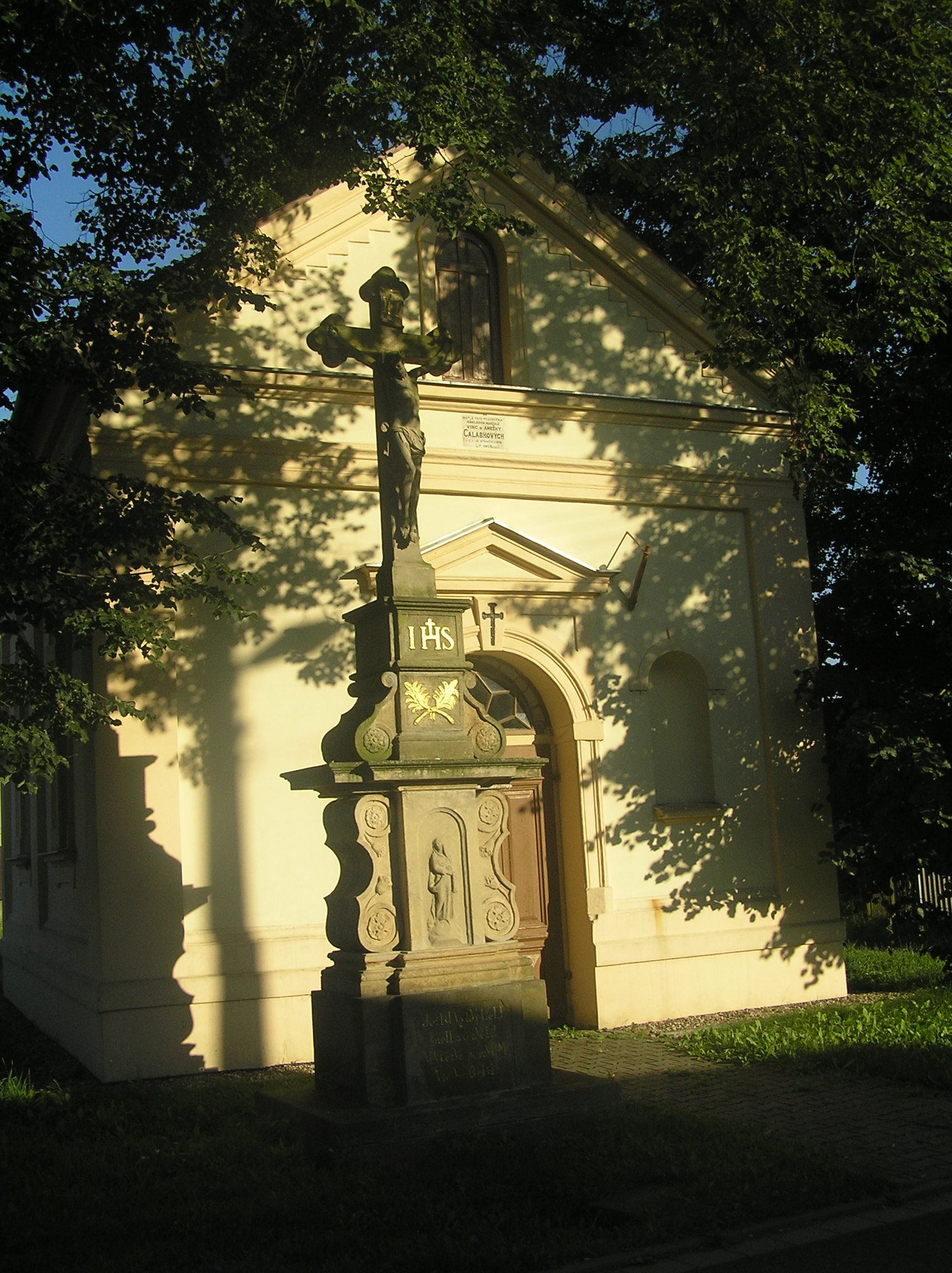 Staměřice is the village in Olomouc Region, Czech Republic